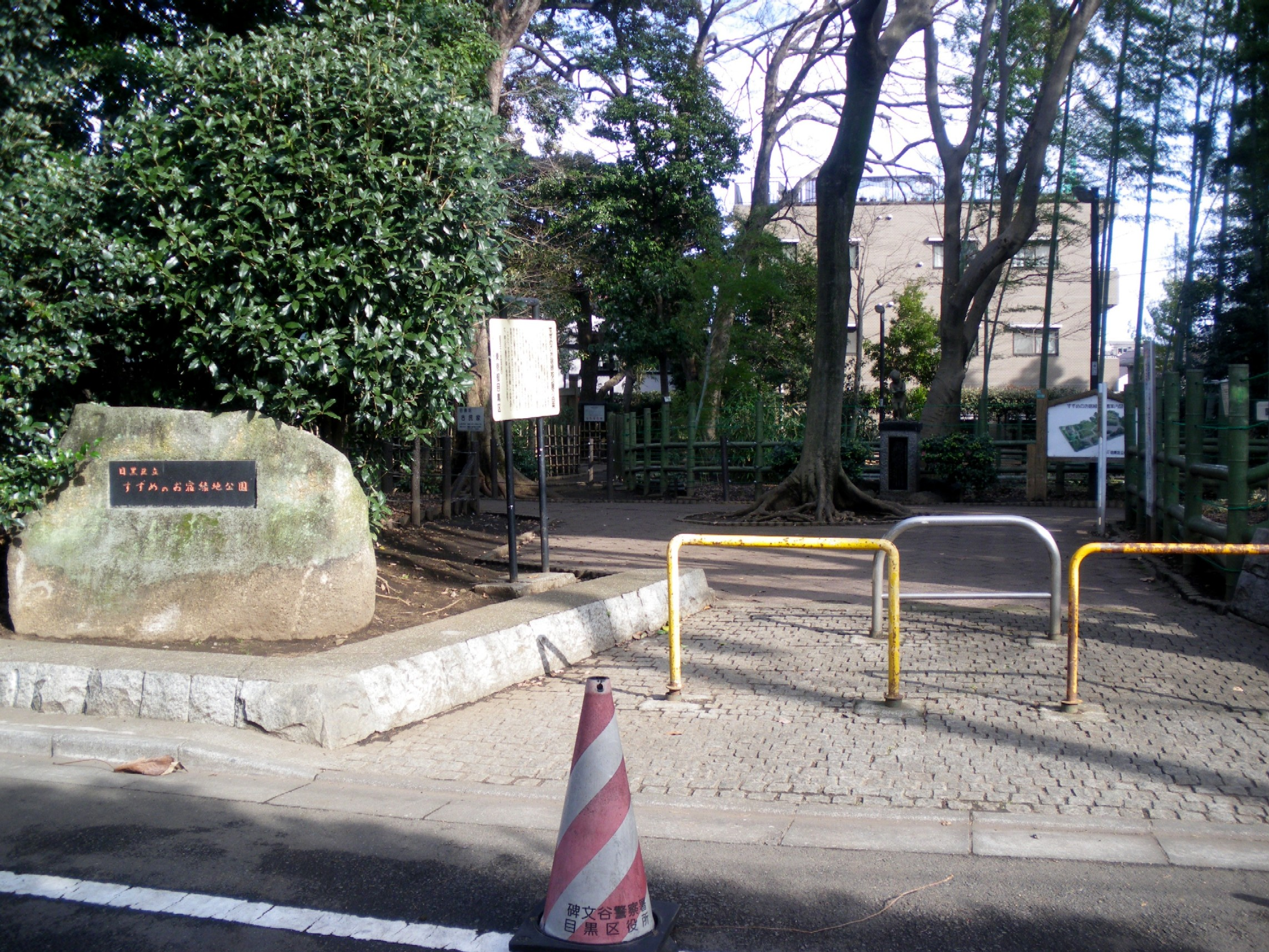 A photo of an entrance of Suzume no Oyado Ryokuchi Park,Himonya,Meguro-ku,Tokyo,Japan.